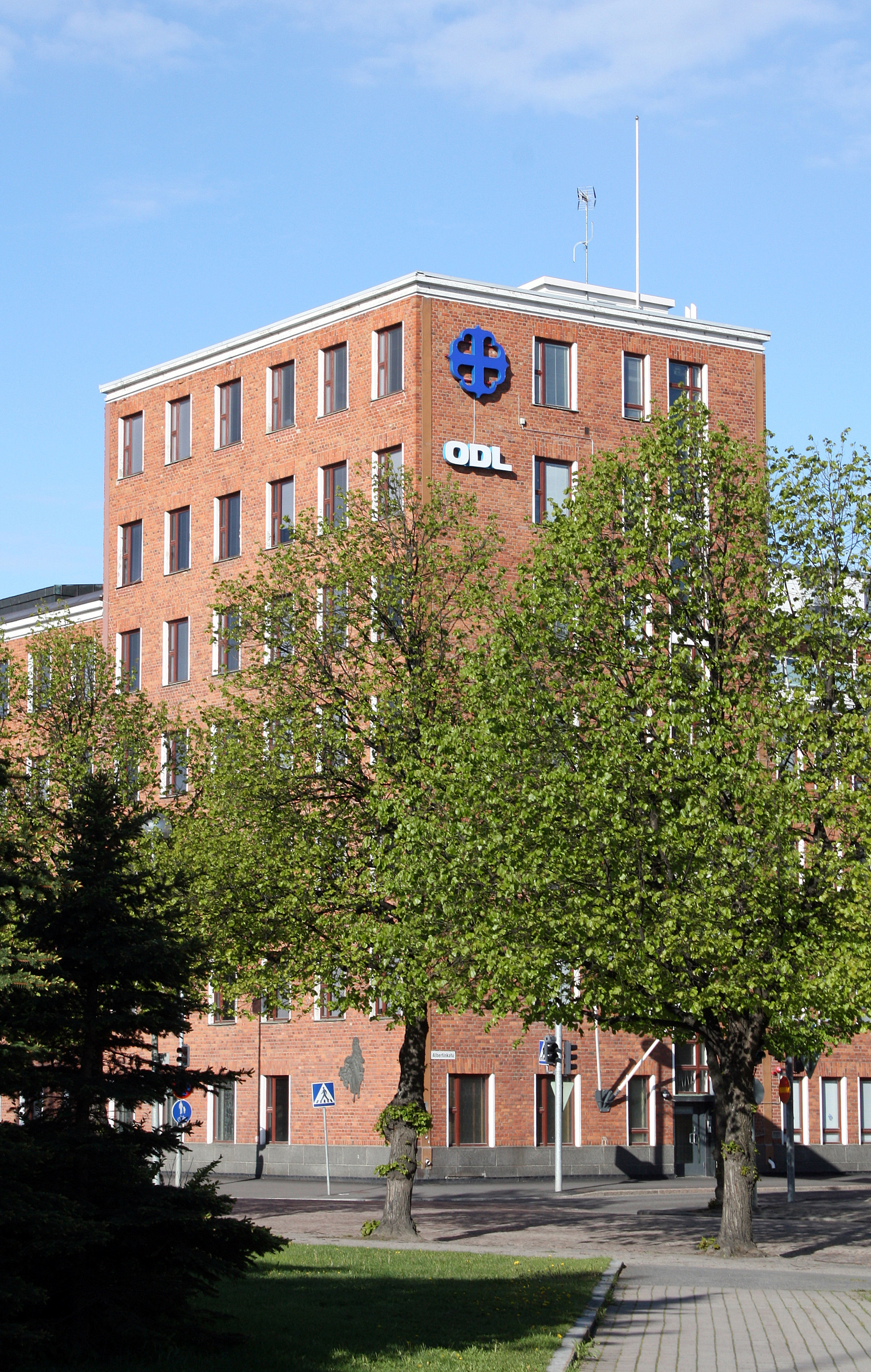 Oulu Deaconess Institute in the corner of Albertinkatu and Uusikatu streets in Oulu. The building was completed in 1951 and designed by architect Veikko Kyander.